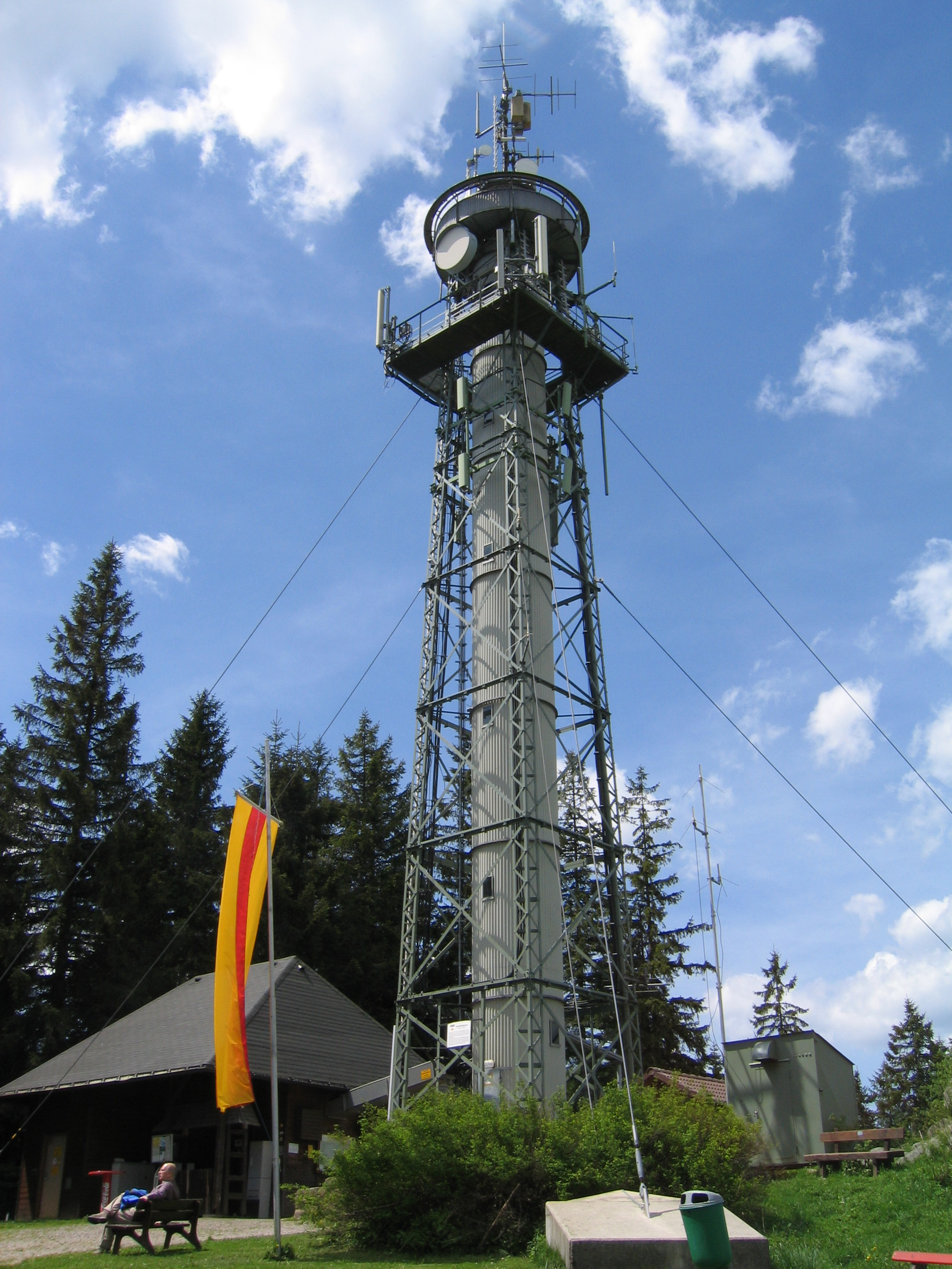 Observation tower at Hochfirst near Titisee-Neustadt in the Black Forest.